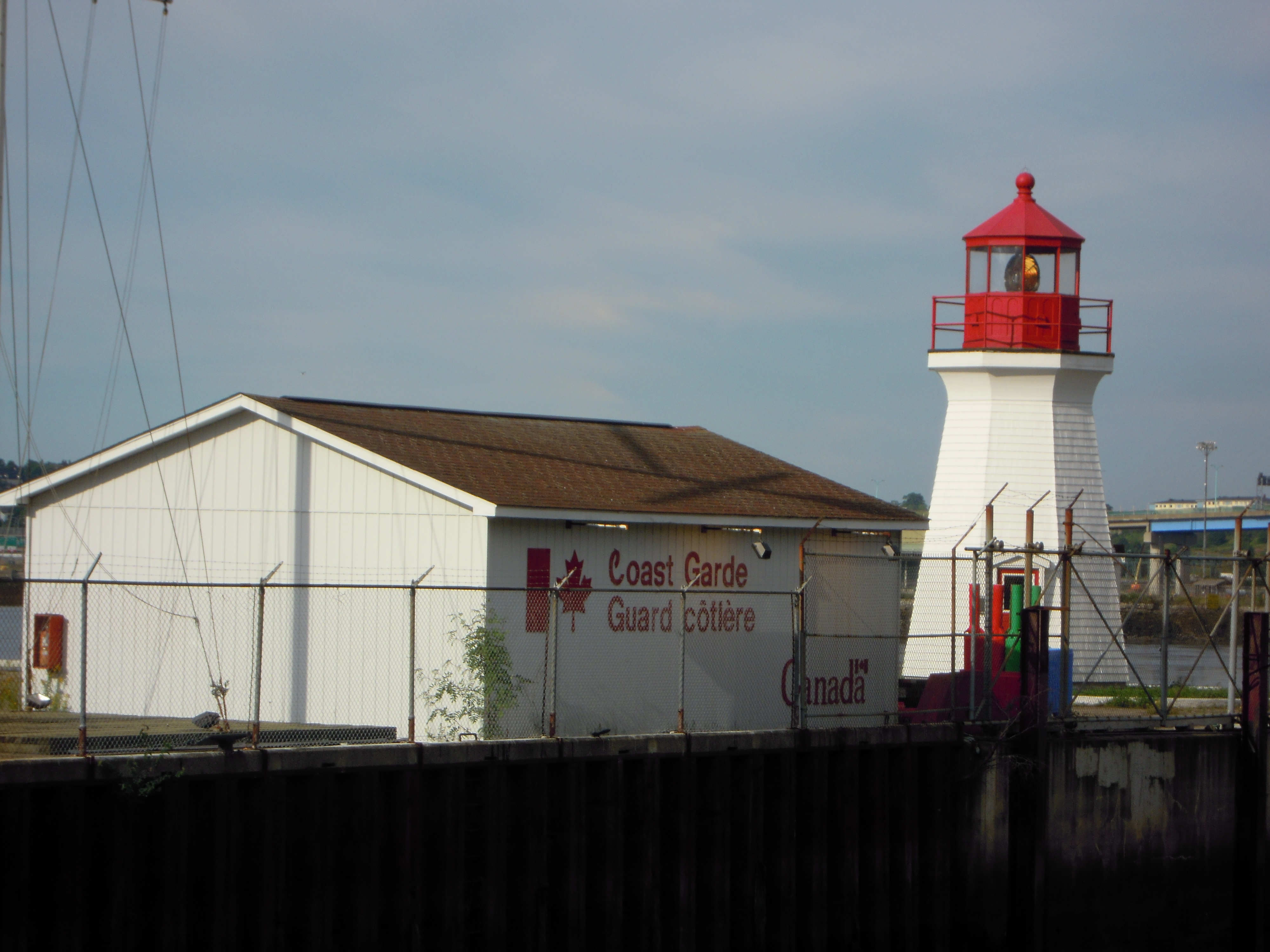 Canadian Coast Guard building and Saint John Harbour Lighthouse at Market Slip, Saint John, New Brunswick, Canada. The lighthouse was constructed in the 1980s by Coast Guard volunteers, and does not aid with navigation.